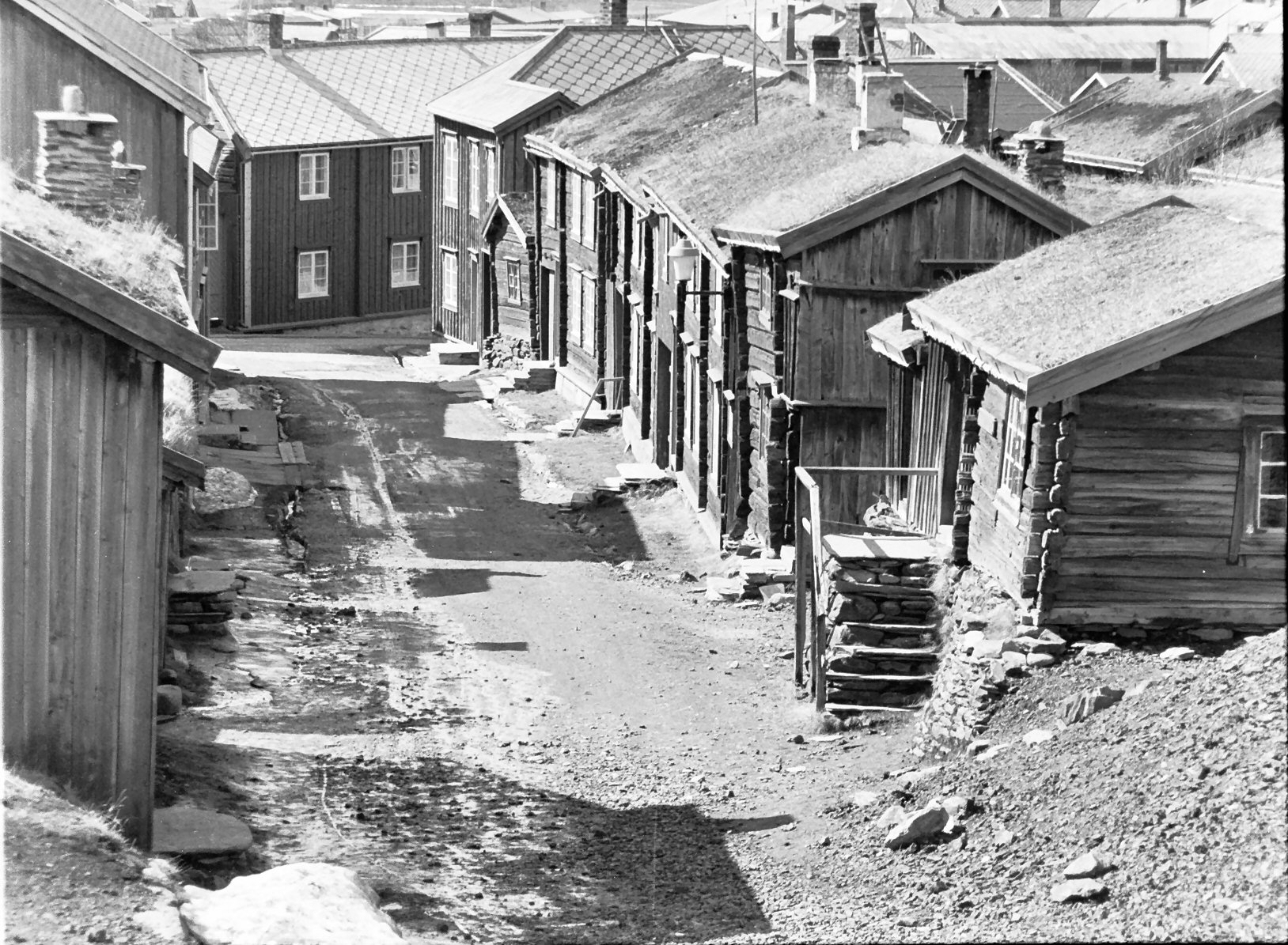 Røros, mining city, Sør-Trøndelag county, Norway. Example of turfed roofs in a city.